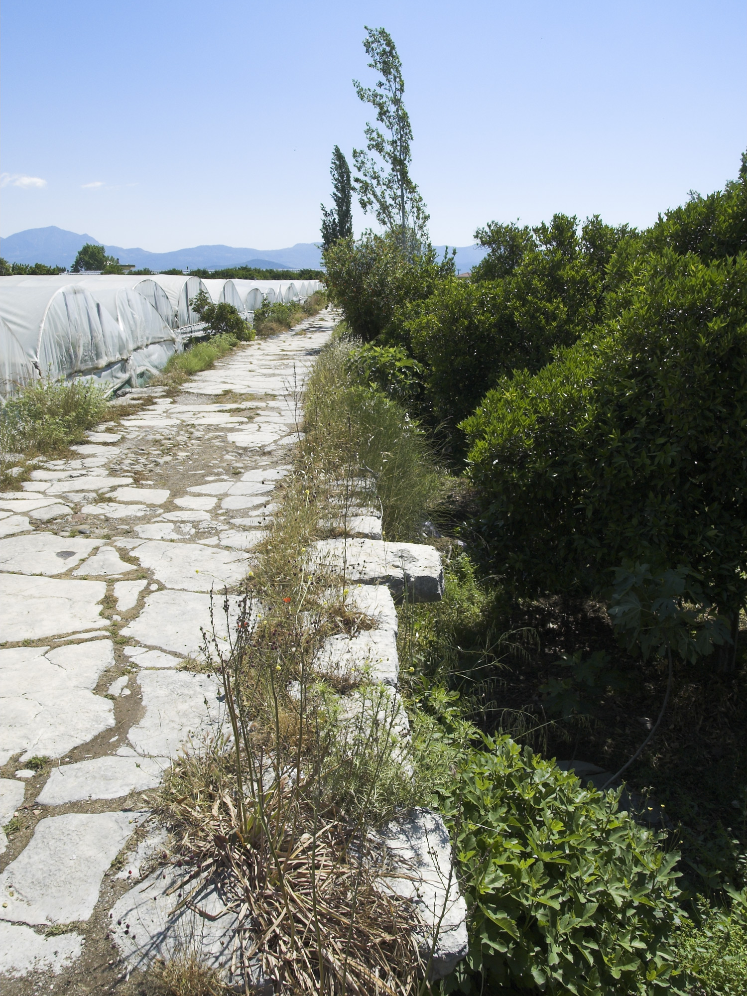 The Roman Bridge near Limyra, Lycia, Turkey. Corbel stone third arch southside. The late antique structure is one of the oldest segmental arch bridges in the world. The 360 m long bridge crosses on 28 arches the Alakır Çayı, 26 of which being segmental arches with an average span to rise ratio of 5.3 to 1. Today, the structure is buried up to the vaults by river sedimentation.